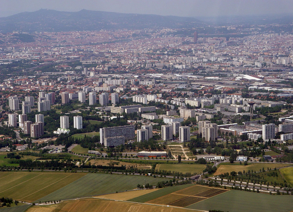 View over the city of Lyon